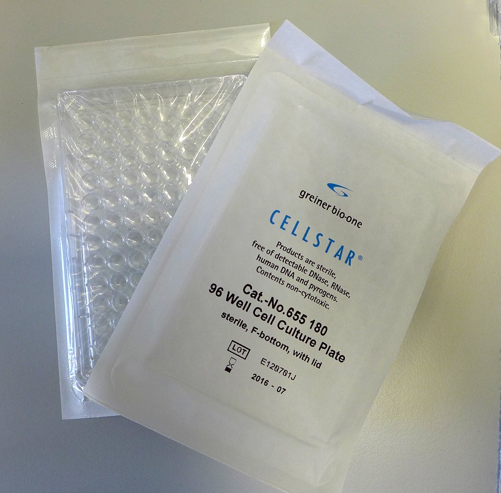 Greiner 96 well plates